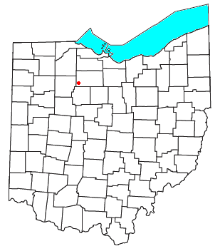 Locator map of the unincorporated community of Alvada in Seneca County, Ohio, United States.